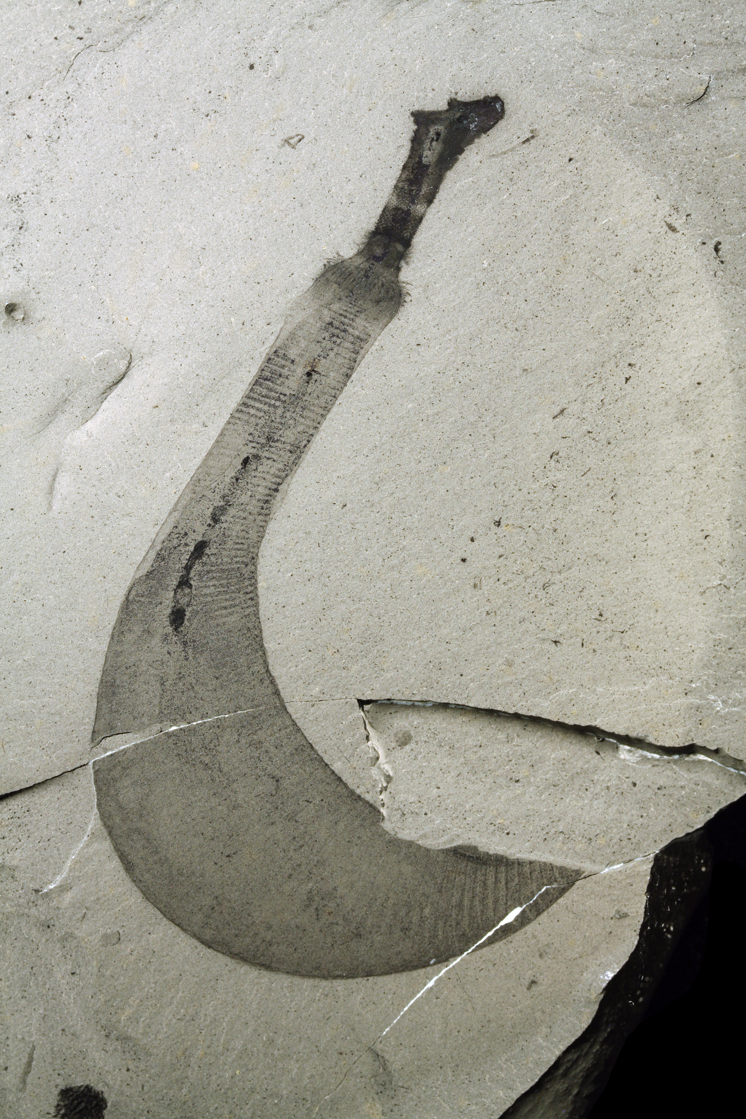 Holotype of Ottoia tricuspida from the Burgess Shale; Royal Ontario Museum 63057. Full details in